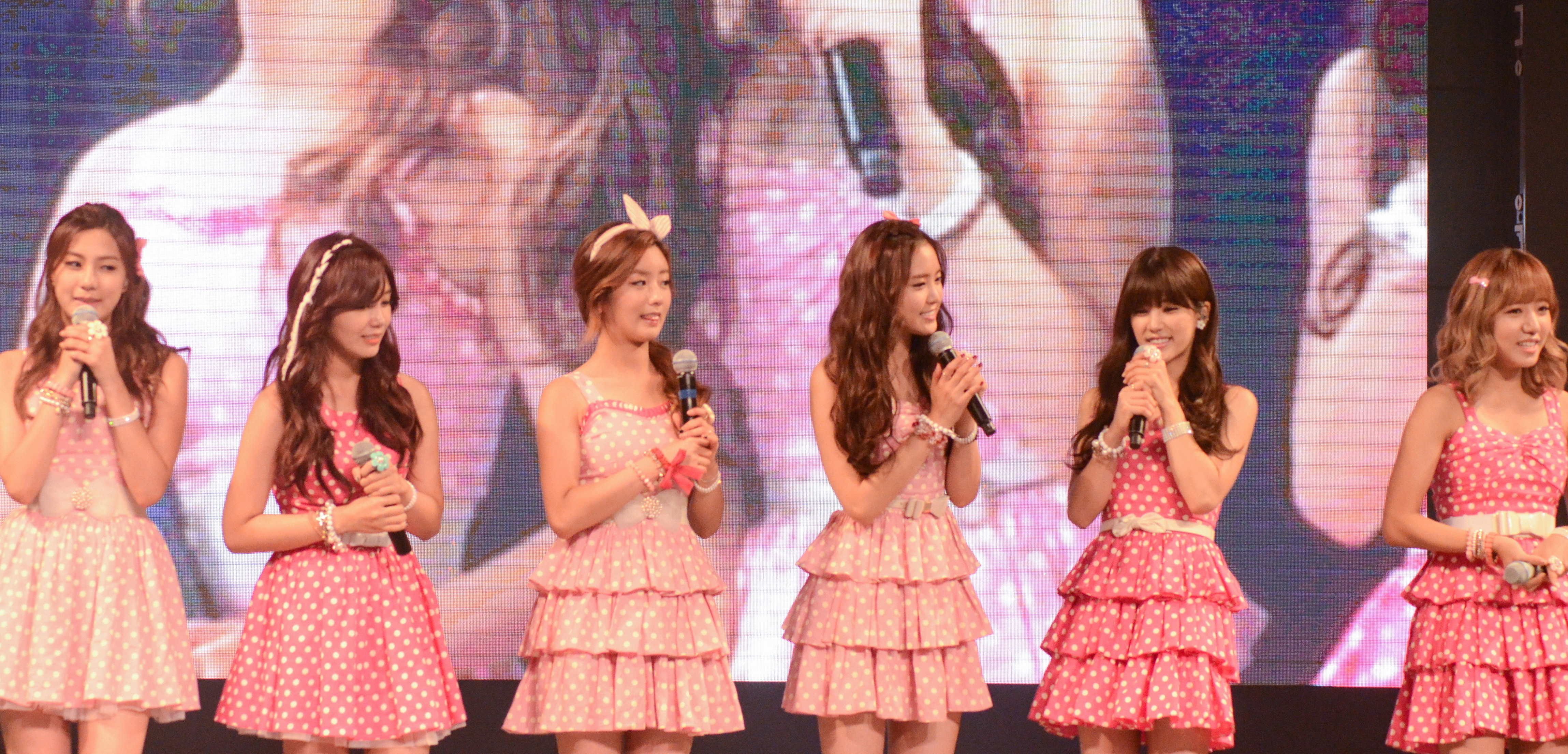 The A Pink. Left to right: Hayoung, Eunji, Bomi, Naeun, Chorong and Namjoo.